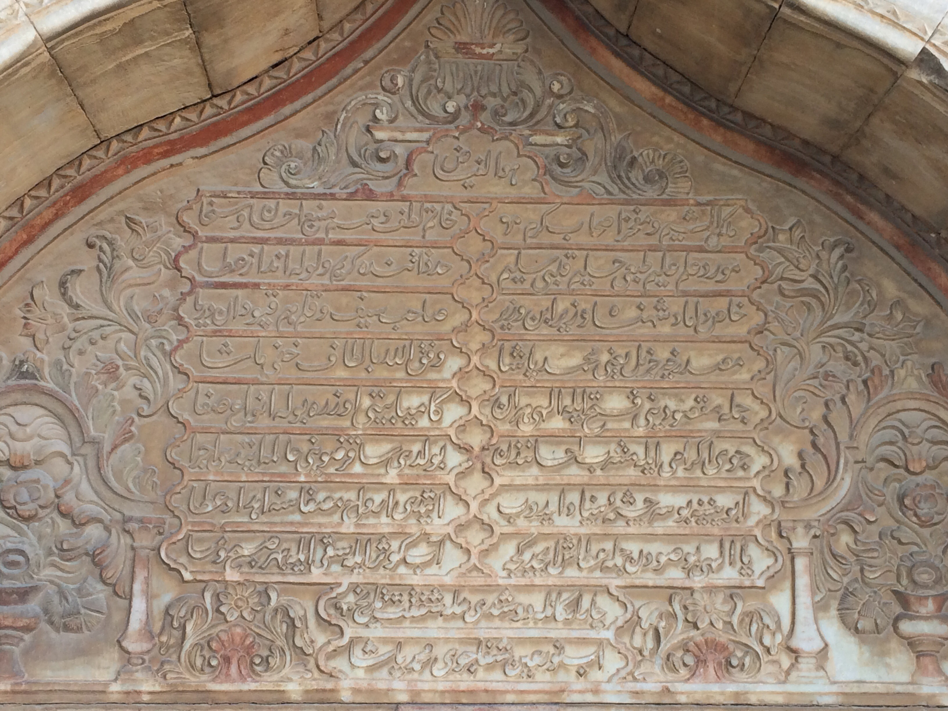 Inscriptions on the Melek Pasha Fountain, Chios, detailed